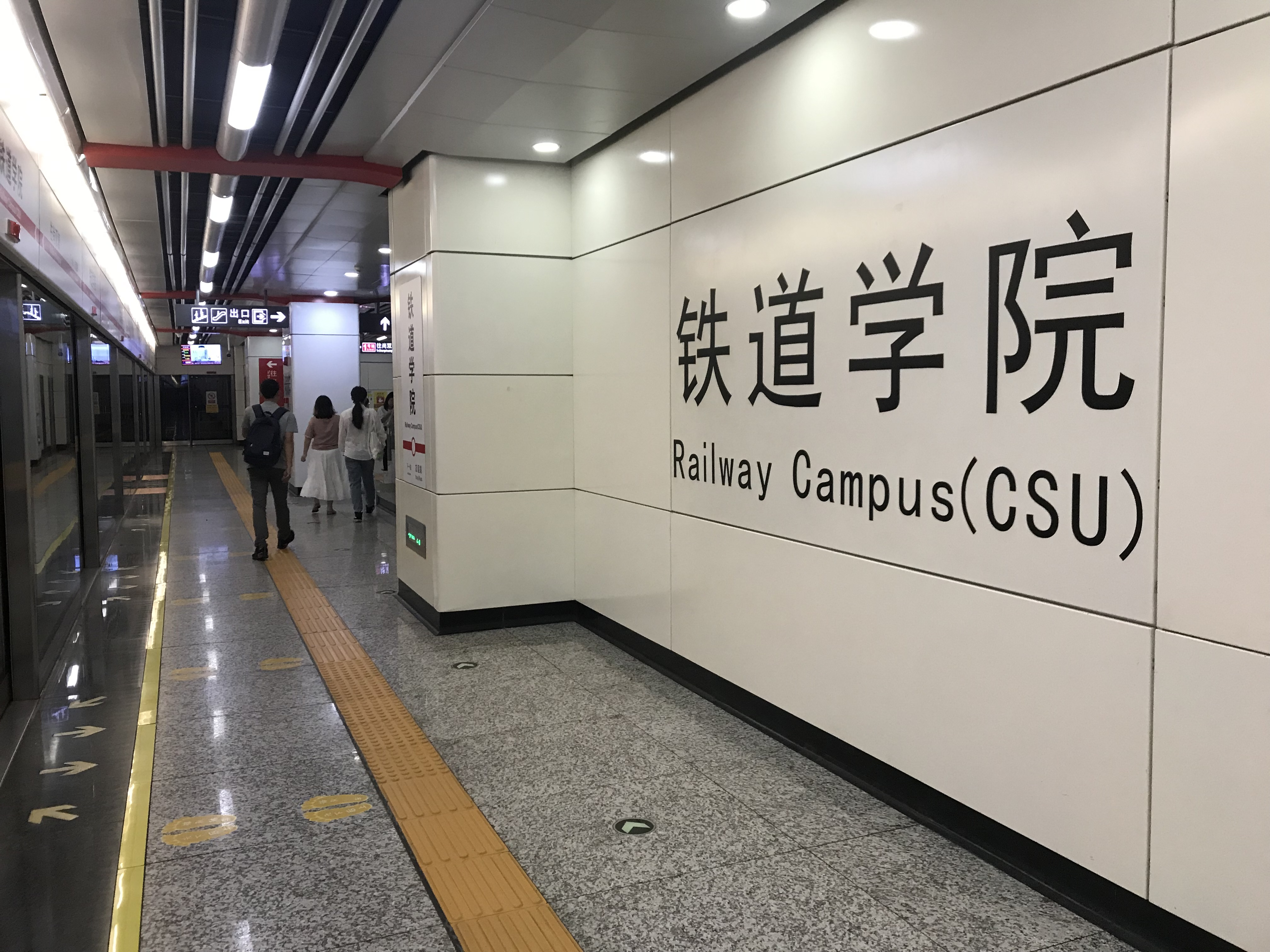 201906 Nameboard of Railway Campus CSU Station